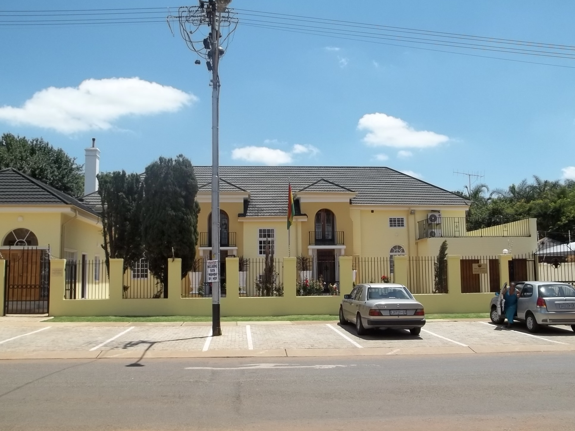 Gh in Za